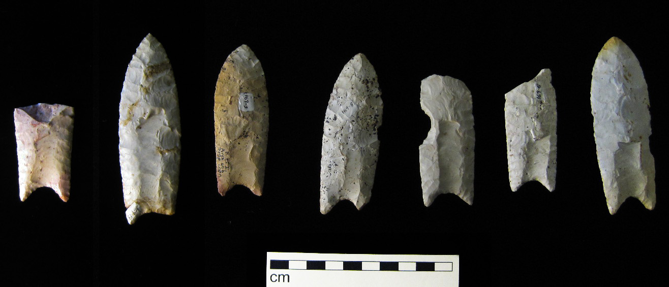 Clovis points from the Rummells-Maske Site, 13CD15, Cedar County, Iowa, These are from the Iowa Office of the State Archaeologist collection.